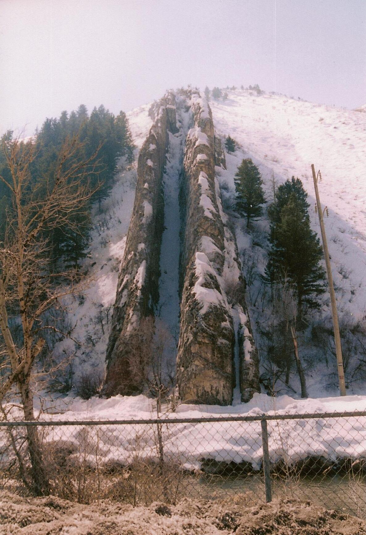 Devil's Slide in Weber Canyon, Morgan County, Utah